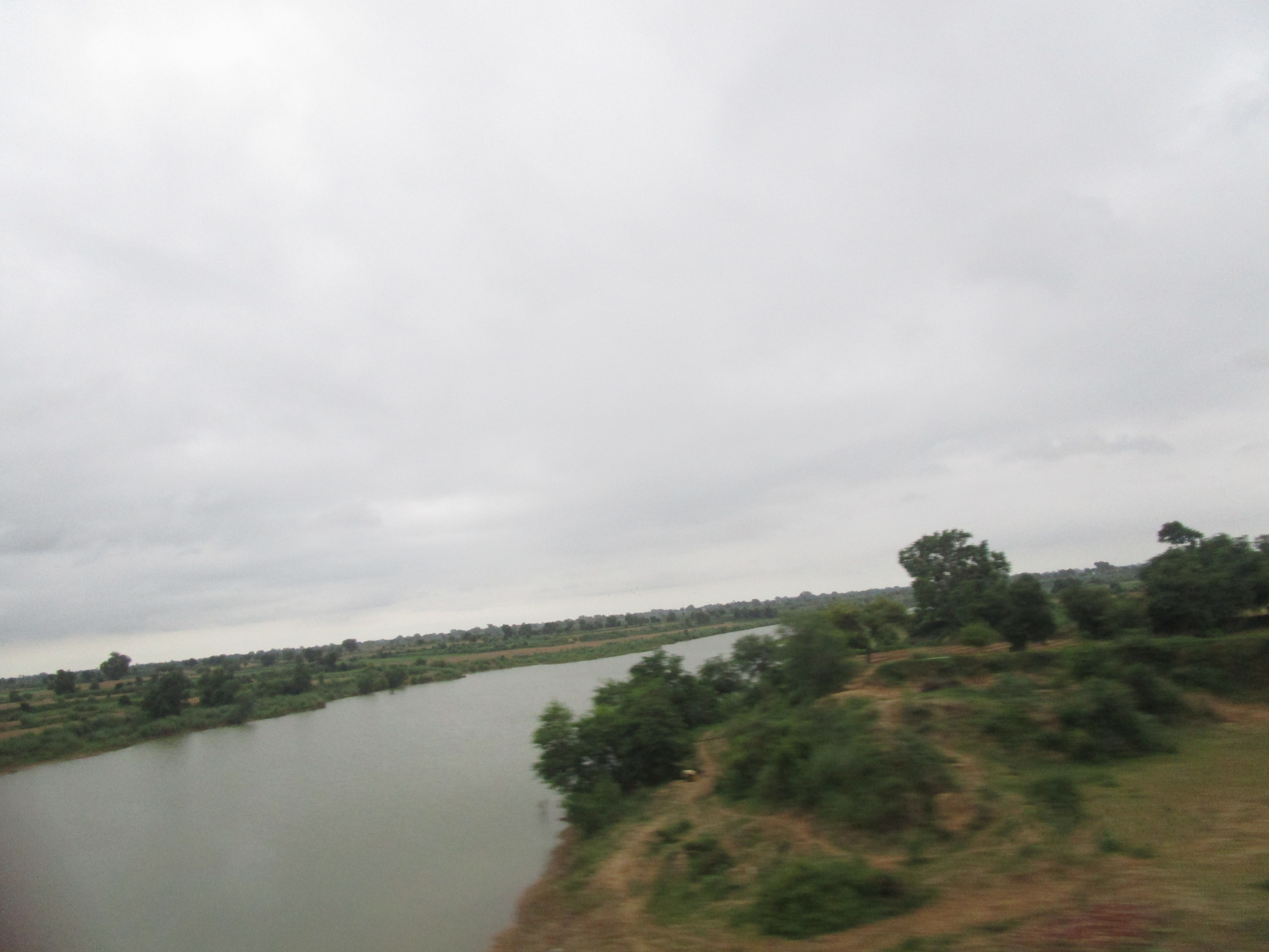 Utangan River